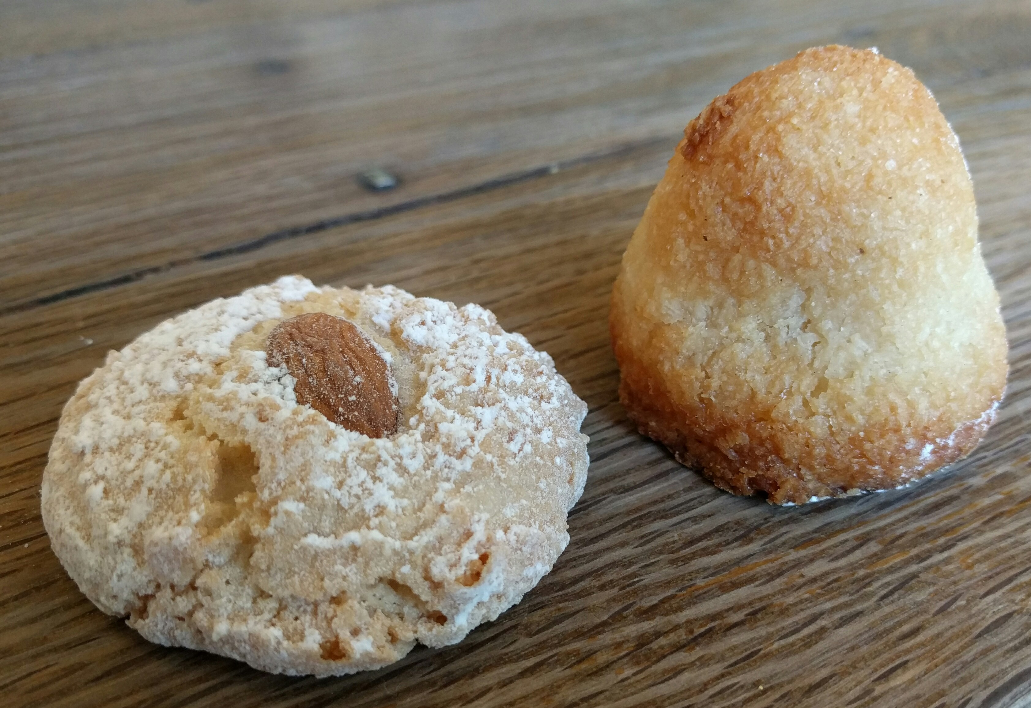 One almond macaroon and one coconut macaroon on a wooden tabletop at Hi-Rise Bread Company, Cambridge, Massachusetts